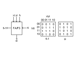 FA/FS-adder block diagram